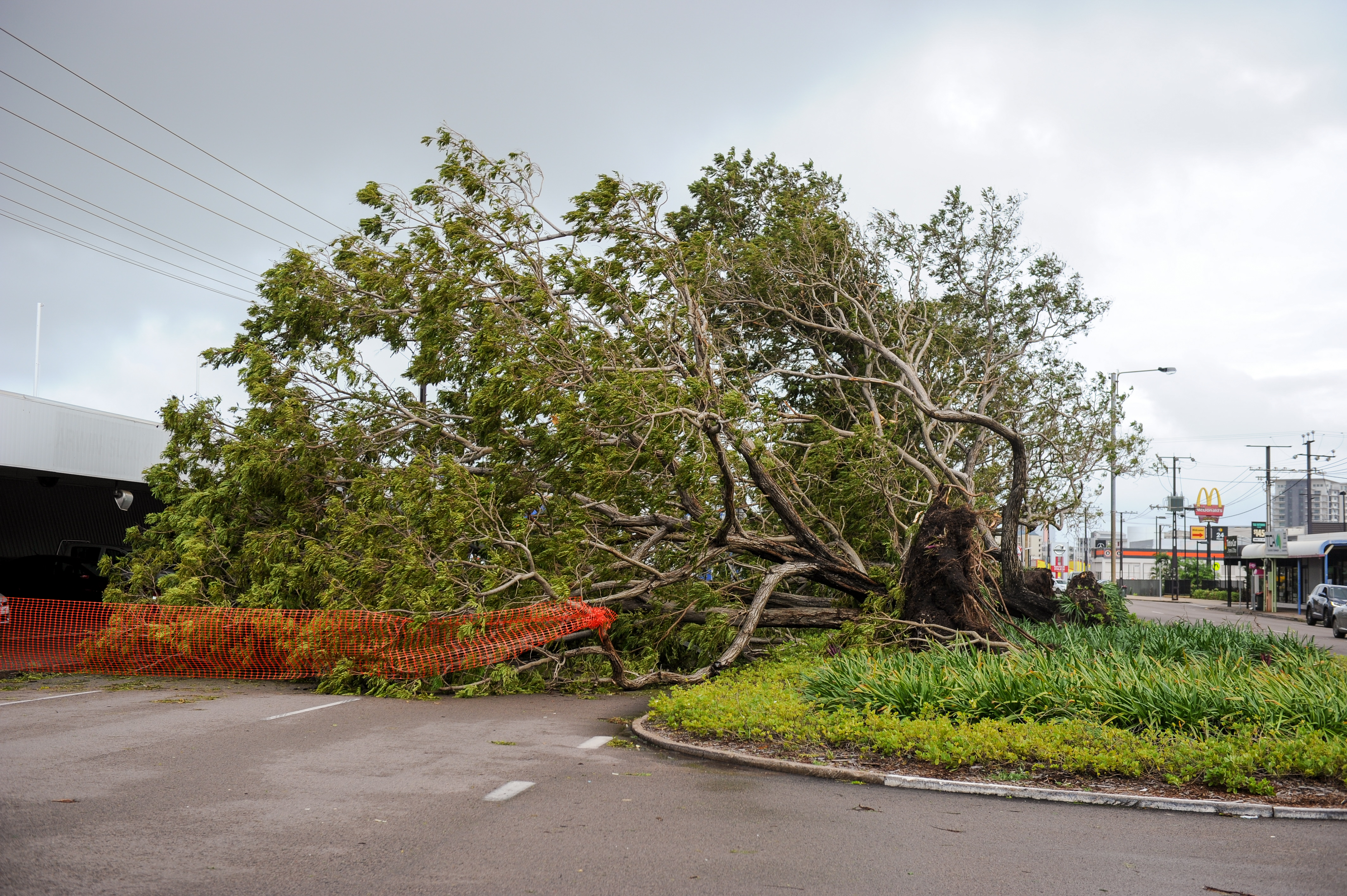 Large tree blocking Stuart Highway about three hours after Cyclone Marcus hit Darwin, Northern Territory on Saturday, 17 March 2018.